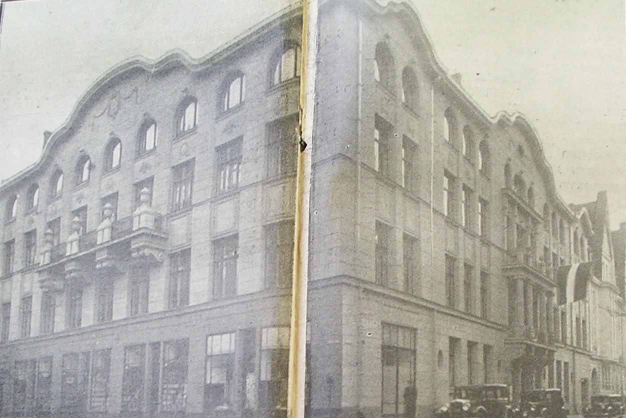 The Jewish Club building in Riga, Skolas str. 6, 1938. From the "Idishe bilder" magazine, November 18, 1938